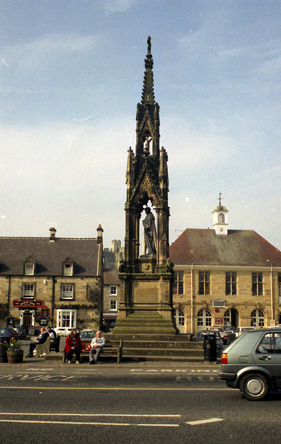 Monument in the Town Square, Helmsley. See 23287 for details. Like many small Yorkshire towns and even villages, Helmsley has a large open space in the centre, which can be anything from a village green to a market square. Here, the 'Royal Oak' is seen on the far side of the square, reflecting the Royalist support here during the Civil War.